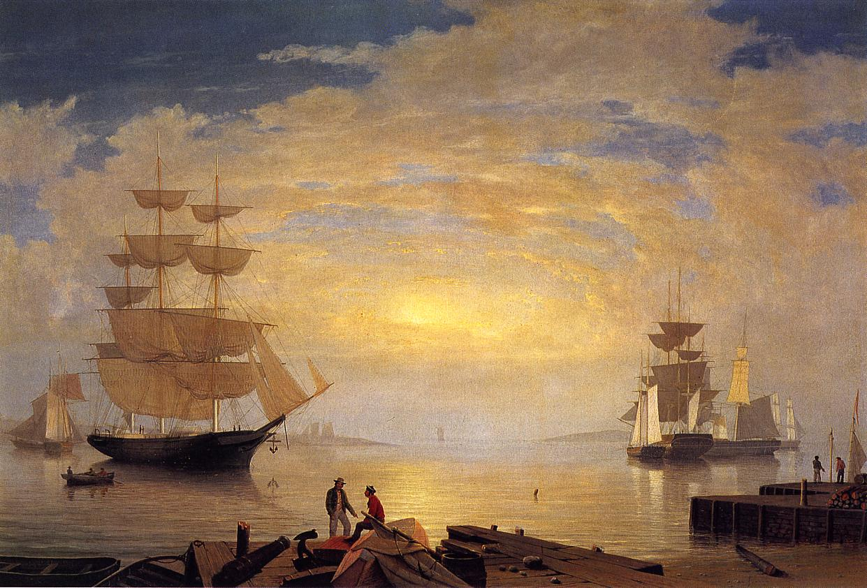 Gloucester Harbor at Sunrise